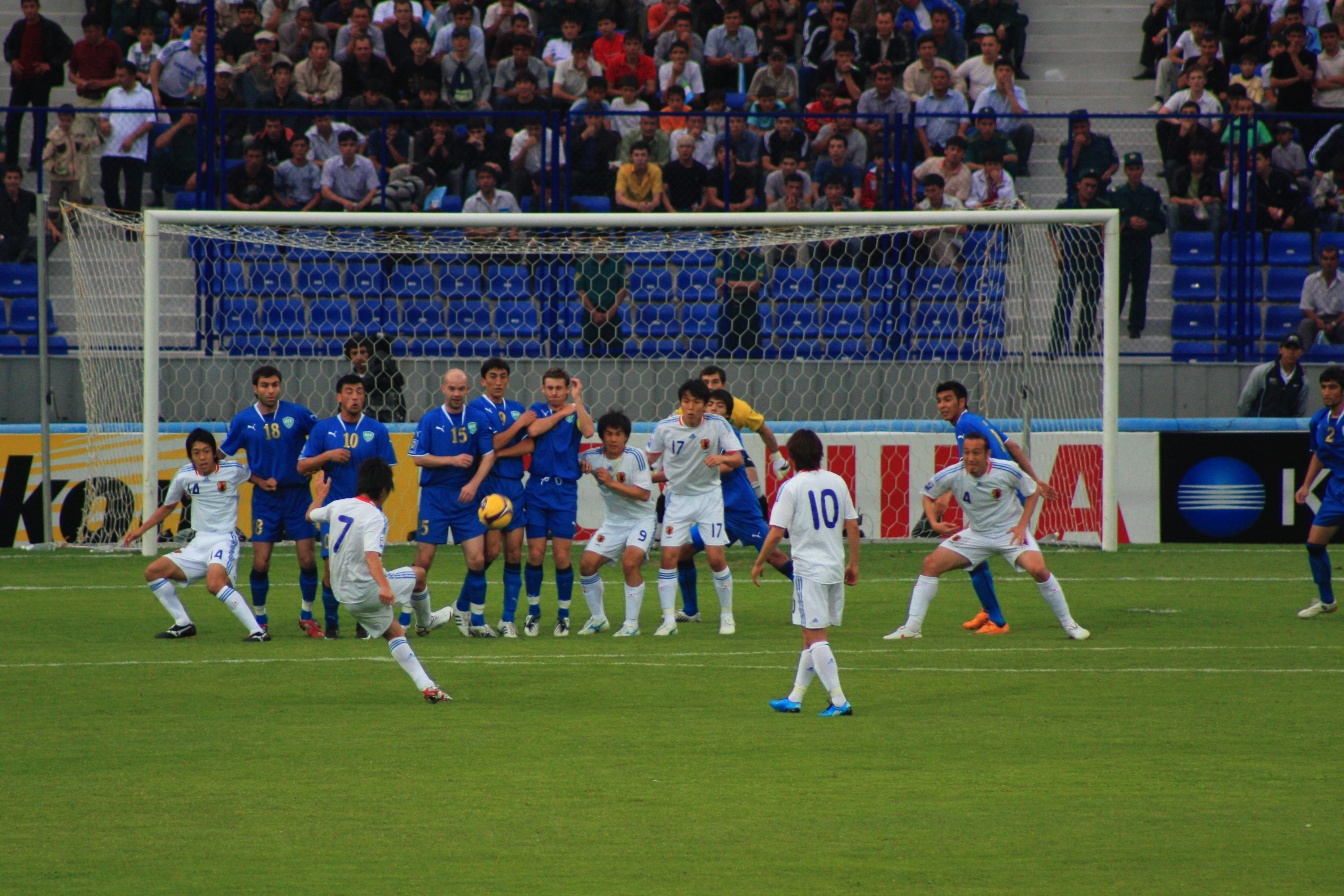 Free kick during qualification match for the 2010 Soccer World Cup (Asian zone) : Uzbekistan 0-1 Japan, at Pakhtakor Stadium, in Tashkent (Uzbekistan). Uzbekistan is in blue, Japan in white.